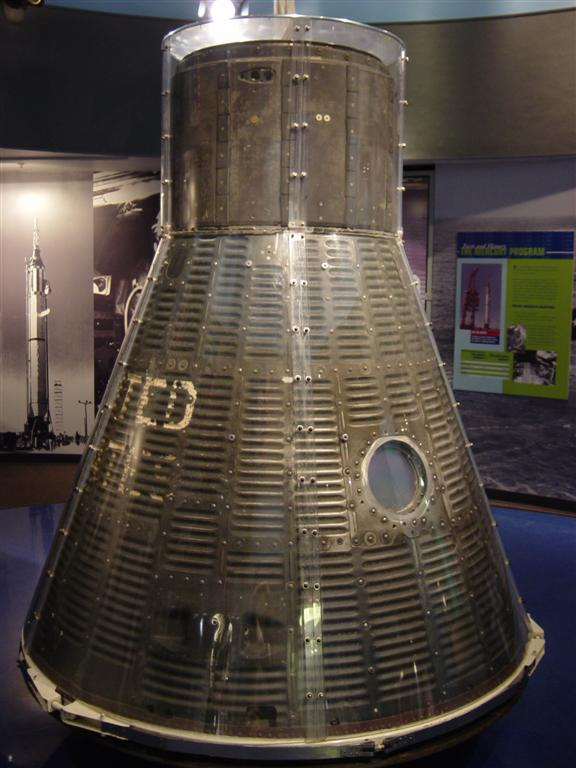 Mercury spacecraft used on MR-1 and MR-1A missions on display at Kennedy Space Center, Florida October 10, 2003